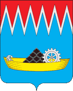 Svirsk (Irkutsk oblast), Coats of arms